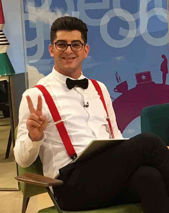 Alexander Kadiev